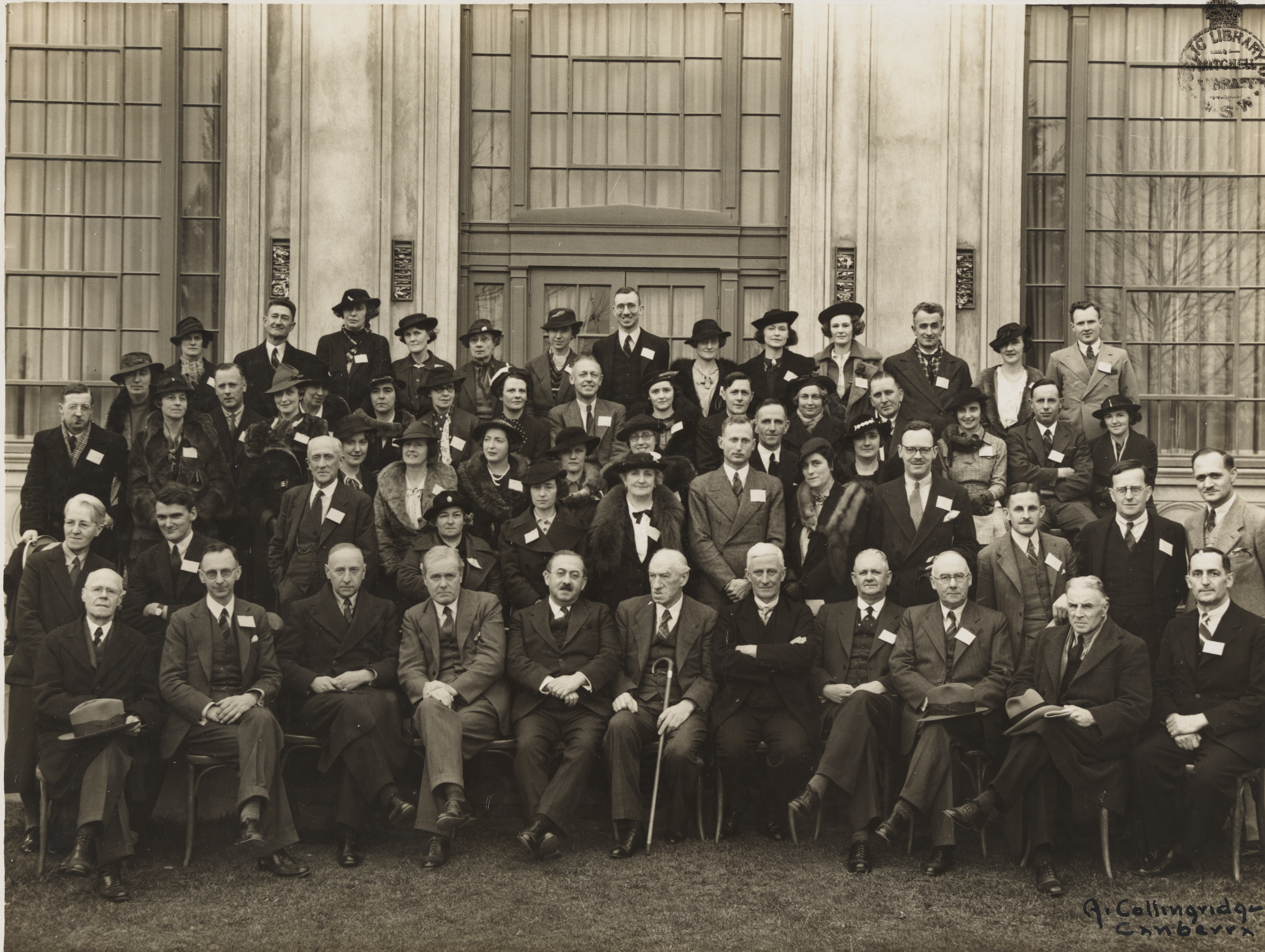 Group photograph of the delegates attending the Australian Institute of Librarians' inaugural meeting at Canberra, Australia. Back row, left to right:— Miss C. K. Irvine, Mr. J. V. Flannery, Miss M. Barrington, Mrs. N. H. E, Robb, Miss Z. B. Bertles, Miss P. Mander Jones, Mr L. C. Key, Miss A. M. Turkington, Miss M. M. Lafferty, Miss E. Lambert, Mr. W. C. Baud, Miss J. M. Begg, Mr. N. S. Lyng. Second row, left to right:- Miss L. M. Foley, Mr. L. Scott, Miss E. M. G. Flower, Miss M. I. Hulme, Miss I. A. M. Fraser, Miss E. S. Hall, Mr. B. B. Levick, Miss N. A. Fraser, Ms Joyce Hunter, Miss B. C. Wines, Mr. J. J. O'Brien, Miss E. Stanley, Mr. A. L. G. McDonald, Miss B. J. Whitelaw. Third row, left to right:— Mr E. L. Frazer, Miss H. E. Mackay, Miss M. M. Thompson, Miss M. U. O'Connor, Miss N Armstrong, Mrs E. I. Cuthbert, Miss N. G. Booker, Miss J. F. Arnot, Mr. K. W. Burrow, Miss E. Clapham. Fourth row, left to right:— Miss I. E. Leeson, Mr. L. F. Fitzhardinge, Mr. W. C. Quinton, Miss E. E. Small, Miss E. A. Sims, Miss D. M. Flynn, Mr. K. A. Lodewyckx, Miss E. L. M. Gallagher, Mr. I. A. Mair, Mr. H. L. White, Mr. A. B. Foxcroft, Mr. J. W. Metcalfe. Fifth row, left to right:- Mr. J. J. Quinn, Mr. K. Binns, Mr. E. R. Pitt, Sir Percival Meadon, Mr. I. L. Kandel, Mr. Frank Tate, Mr. E. Salter Davies, Dr J. S. Battye, Professor E. Morris Miller, Mr. W. H. Ifould, Mr. H. R. Purnell.